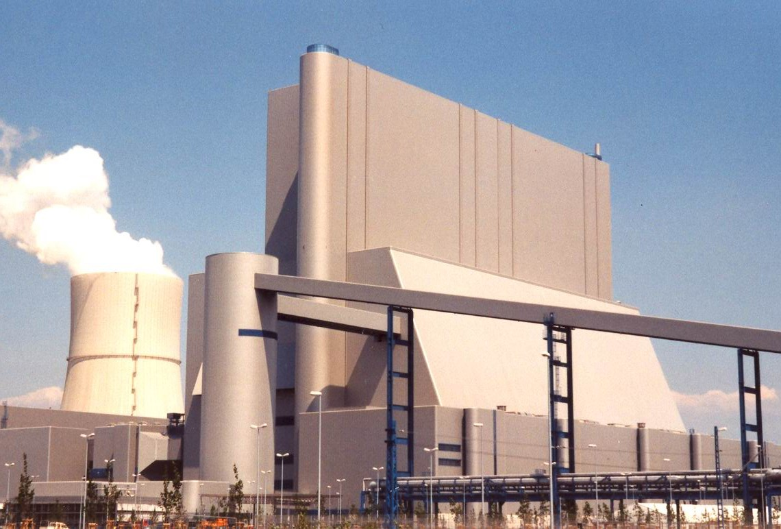 The "Schwarze-Pumpe power station" in Spremberg, Germany